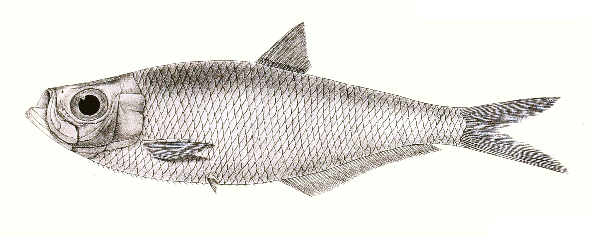 Ilisha megaloptera syn. Pellona megaloptera The species names / identity need verification - original names from plate are included here. The original plates showed the fishes facing right and have been flipped here. Pellona megaloptera